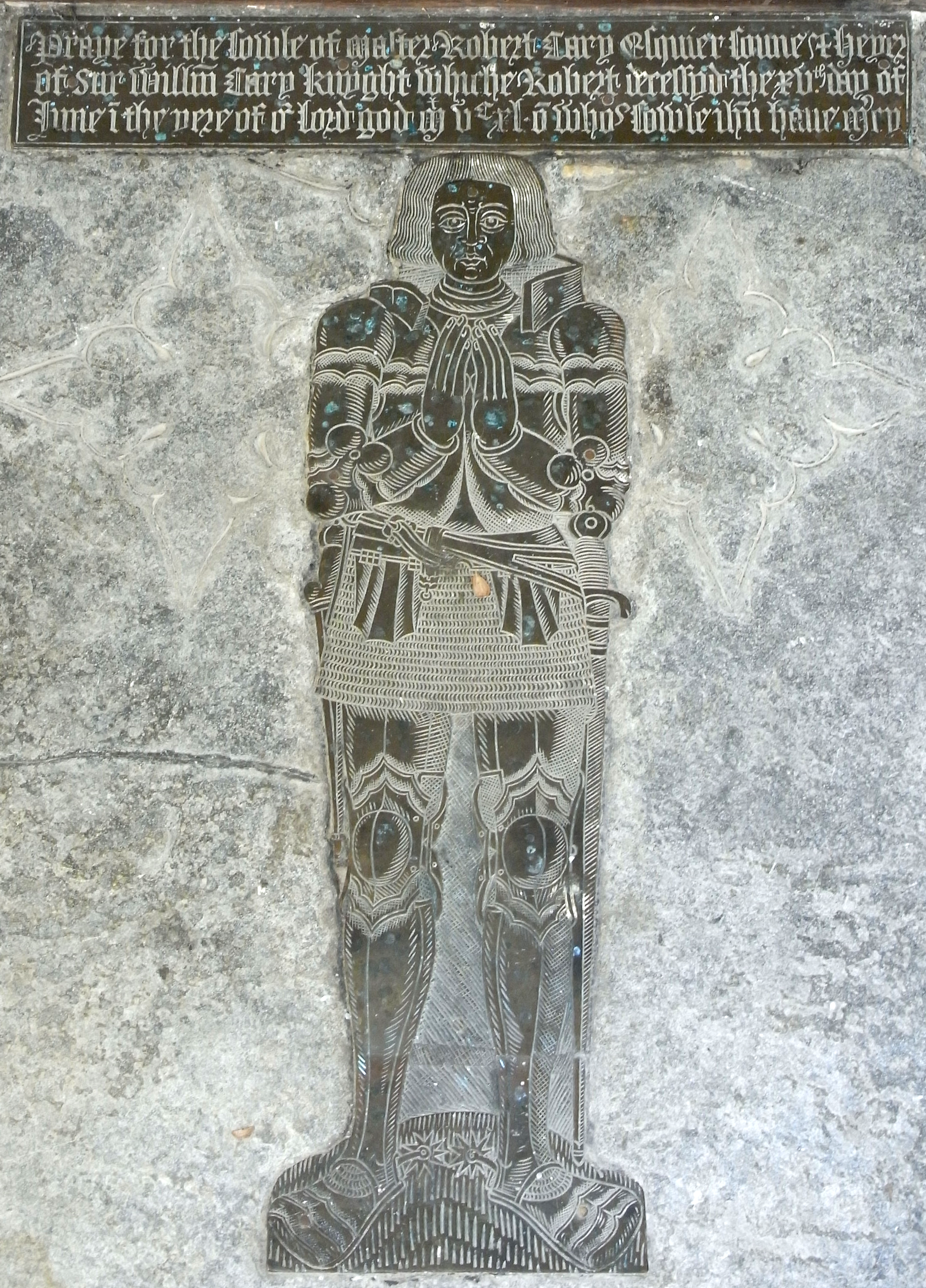 Monumental brass on the floor of the chancel in All Saints' parish church, Clovelly, Devon, in memory of George Cary, who died in 1540. Inscription: Praye for the soule of Master Robert Cary Esquier sonne & heyer of Sur Will'm Cary, Knyght, whiche Robert decessyd the XVth day of June i(n) the yere of o(u)r Lord God MVCXL o(n) whos sowle J(es)hu have m(er)cy